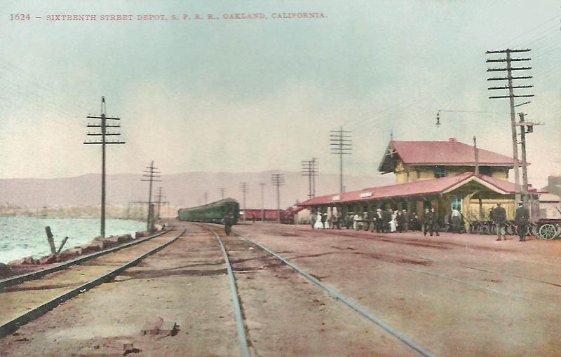 Early divided back postcard of 16th Street station, postmarked in 1910 - shortly before it was rebuilt in 1912